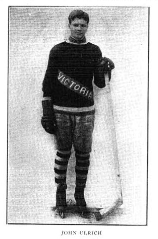 Ice hockey player John "Jack" Ulrich of the Victoria Aristocrats.